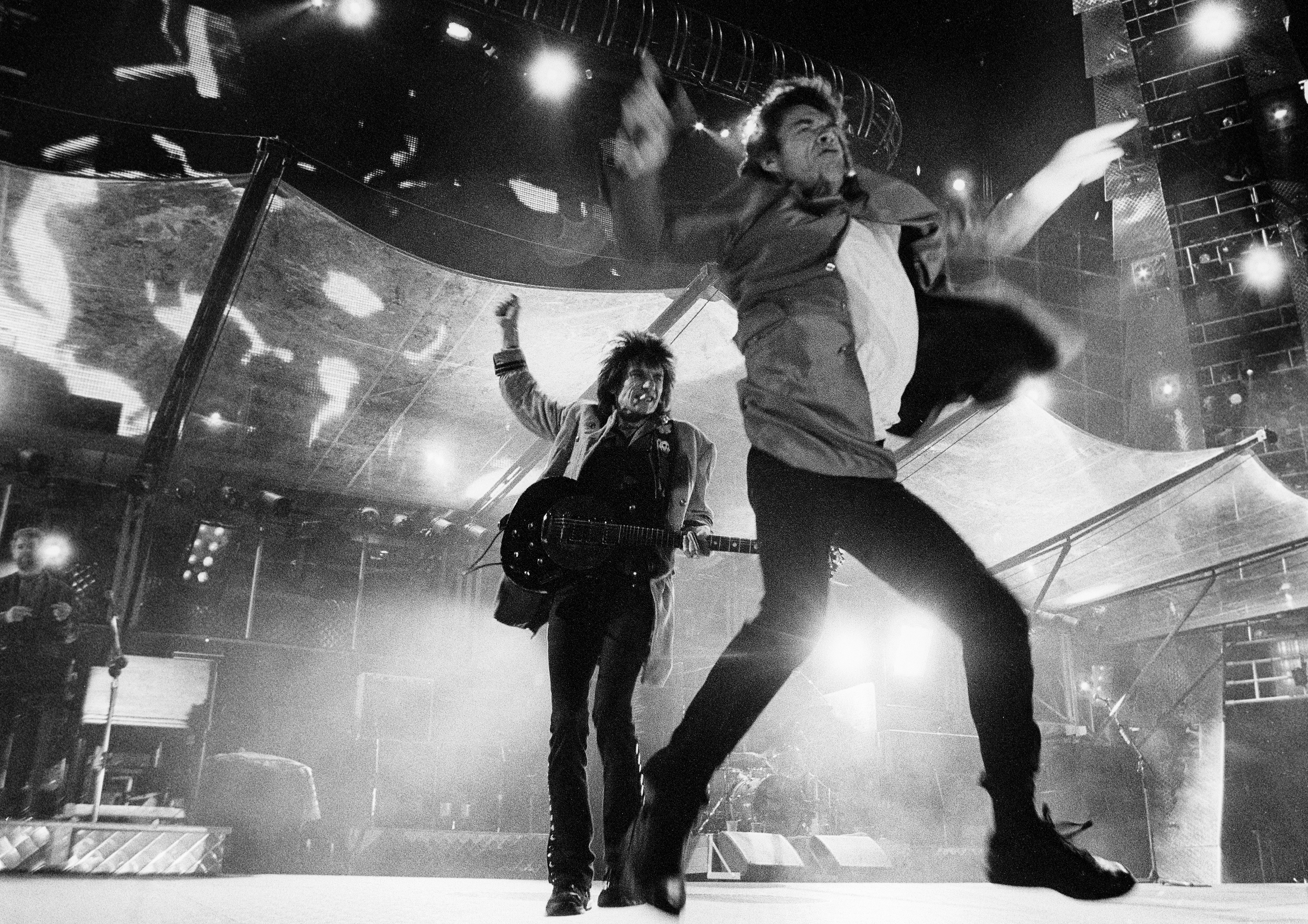 Voodoo Lounge Tour - Zeltweg, Austria - 1st August 1995